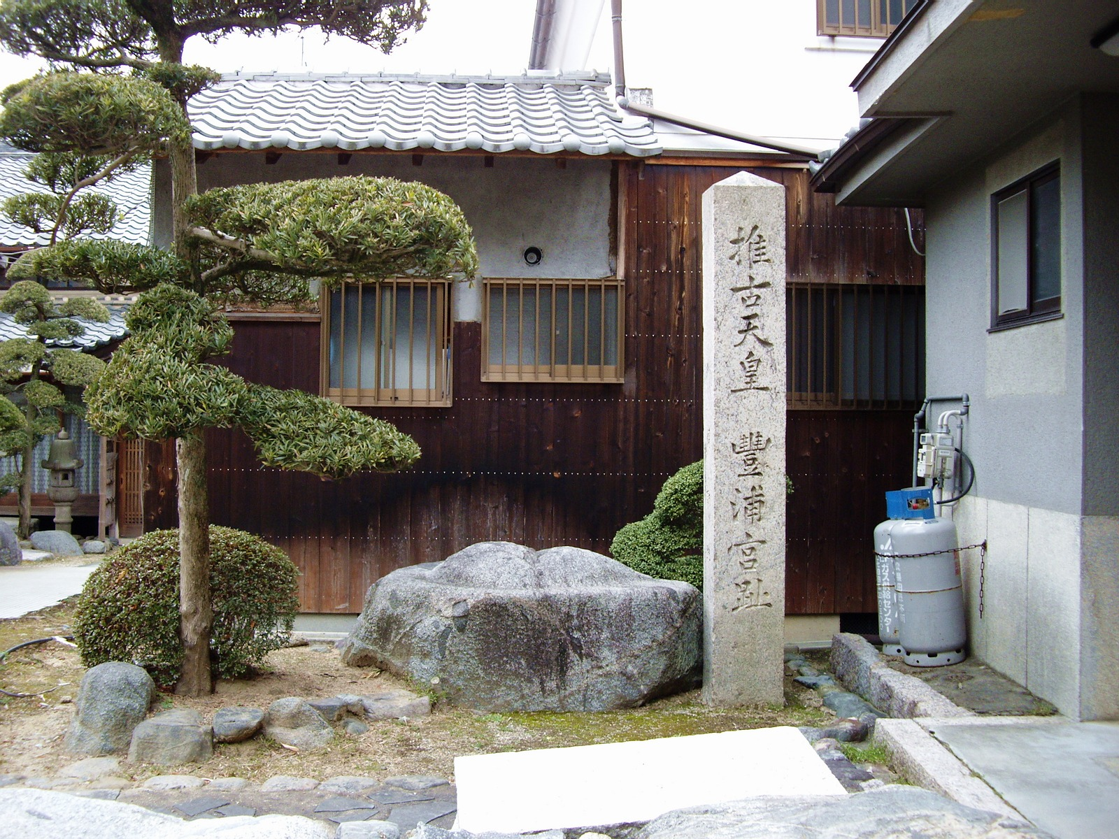 The legendary ruins of Empress Suiko's Palace “Toyura-no-Miya”, in Asuka, Nara Prefecture, Japan